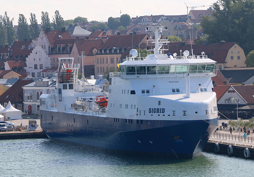 M/S Sigrid in Visby harbour during the Almedalen week 2014.